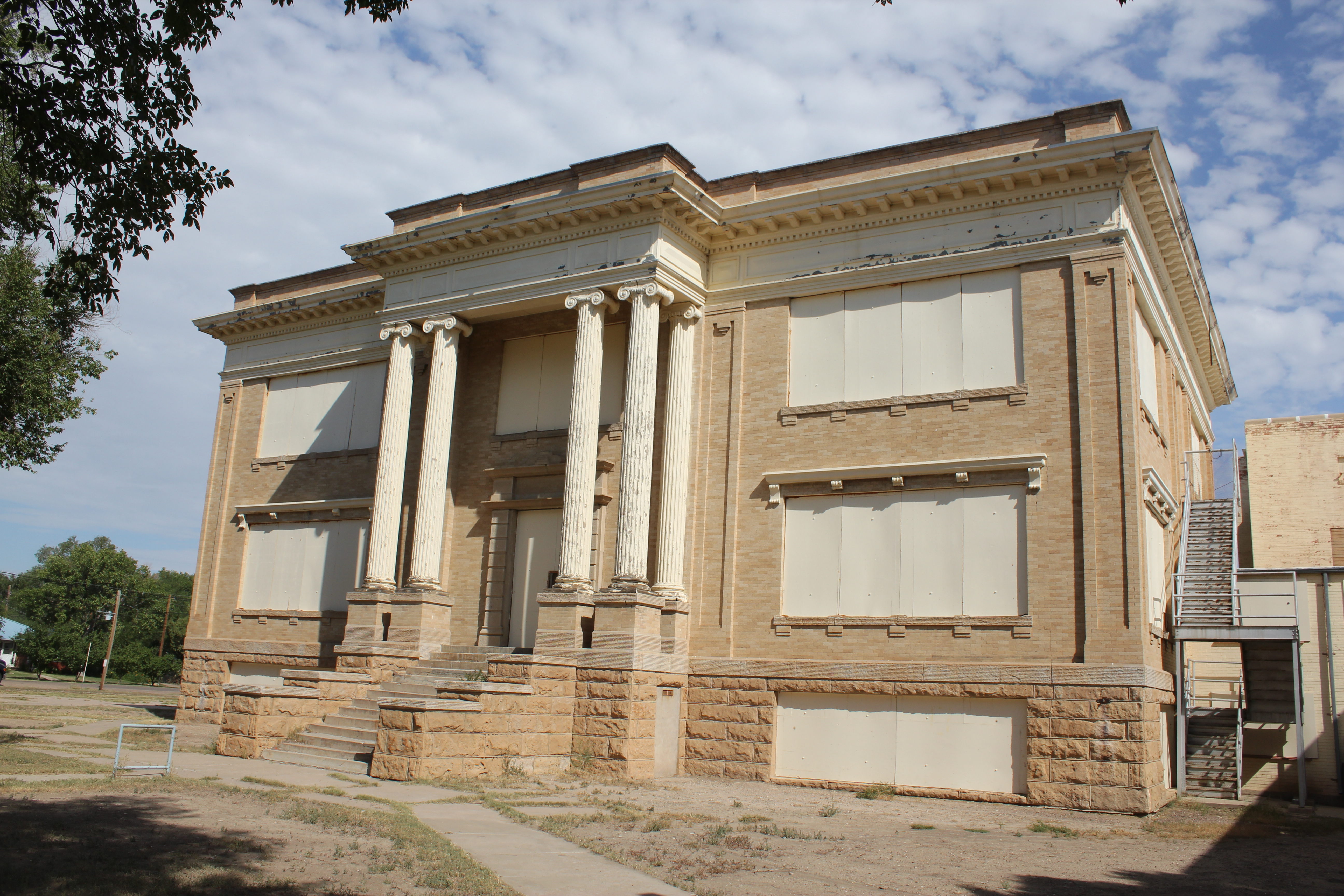 The Bent County High School, located at 1214 Ambassador Thompson Boulevard in Las Aminas, Colorado. The property is listed on the National Register of Historic Places.